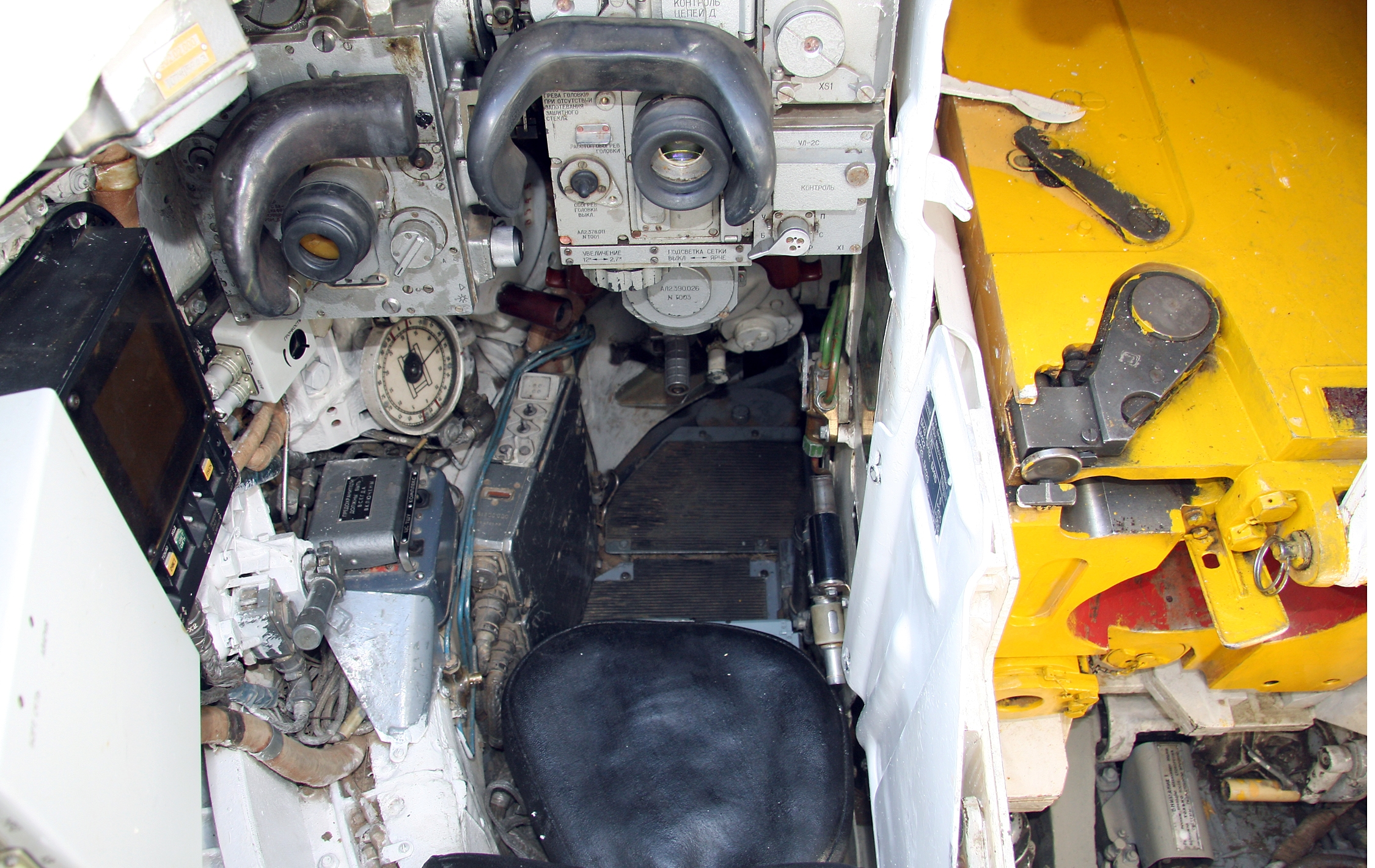 A T-80U tank interior. Gunner